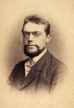 Photo